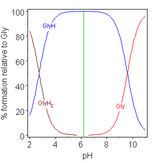 Gycine speciation with isoelectric point